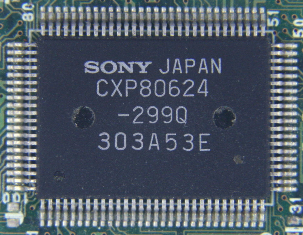 Sony CXP80624-299Q